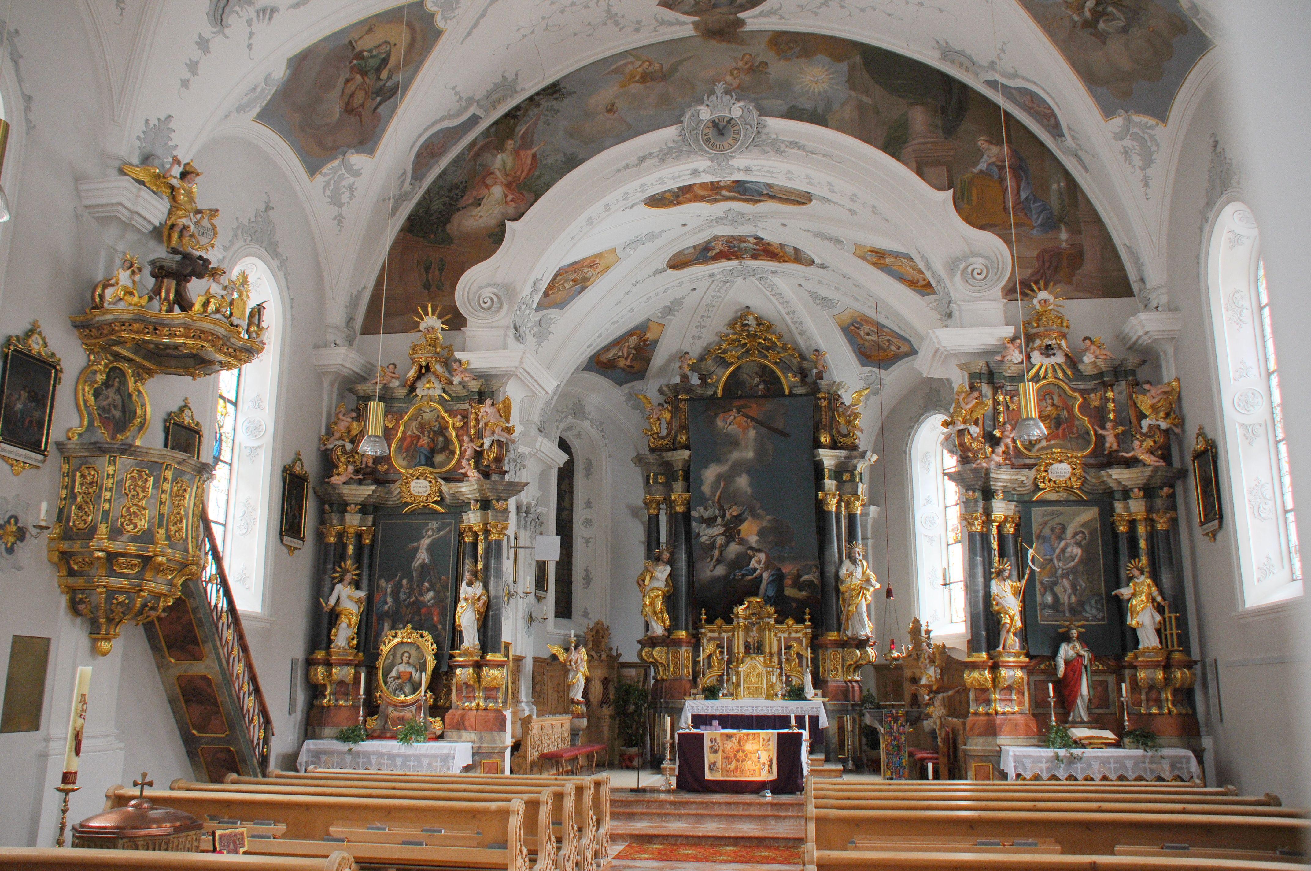 Barocque interior of the Catholic church of Kappl in the Paxnaunvalley Austria